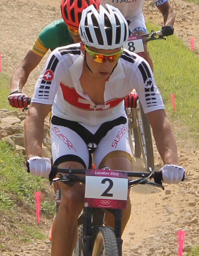 Cycling at the 2012 Summer Olympics – Men's cross-country Nino Schurter (2) (SUI) IMG_4233